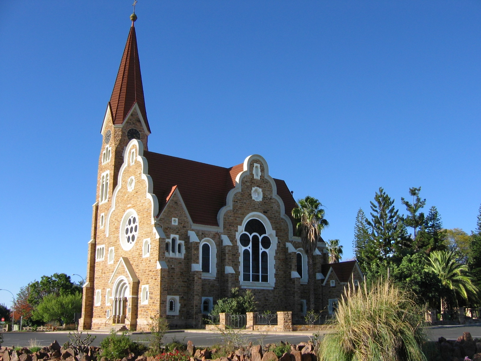 Christus church, Windhoek, Namibia